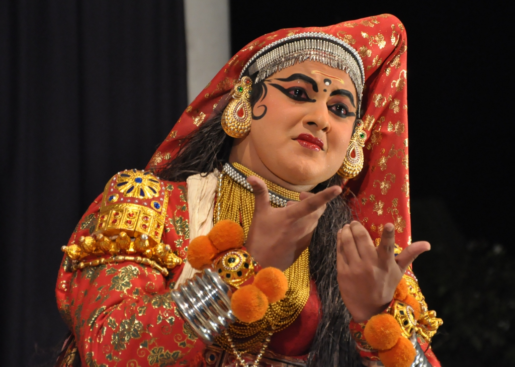 Kalamandalam Sucheendran's Minukku vesham Dhraupati: A scene from kathakali performance of Kirmeera Vadam (@ Edappally on 24th Jan 2010)